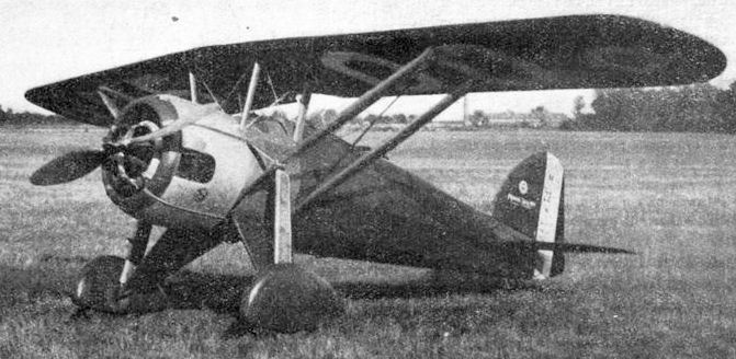 Morane Saulnier MS.225 photo from L'Aerophile Salon 1932